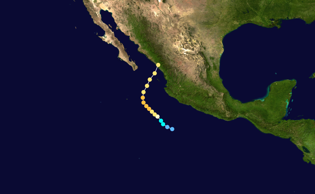 Hurricane Norma (1981) track. Uses the color scheme from the Saffir-Simpson Hurricane Scale.